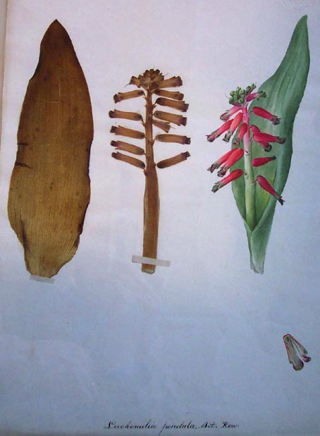 Lachenalia Jacq. (Liliaceae) pendula by Lydia Shackleton - dried sample and painting